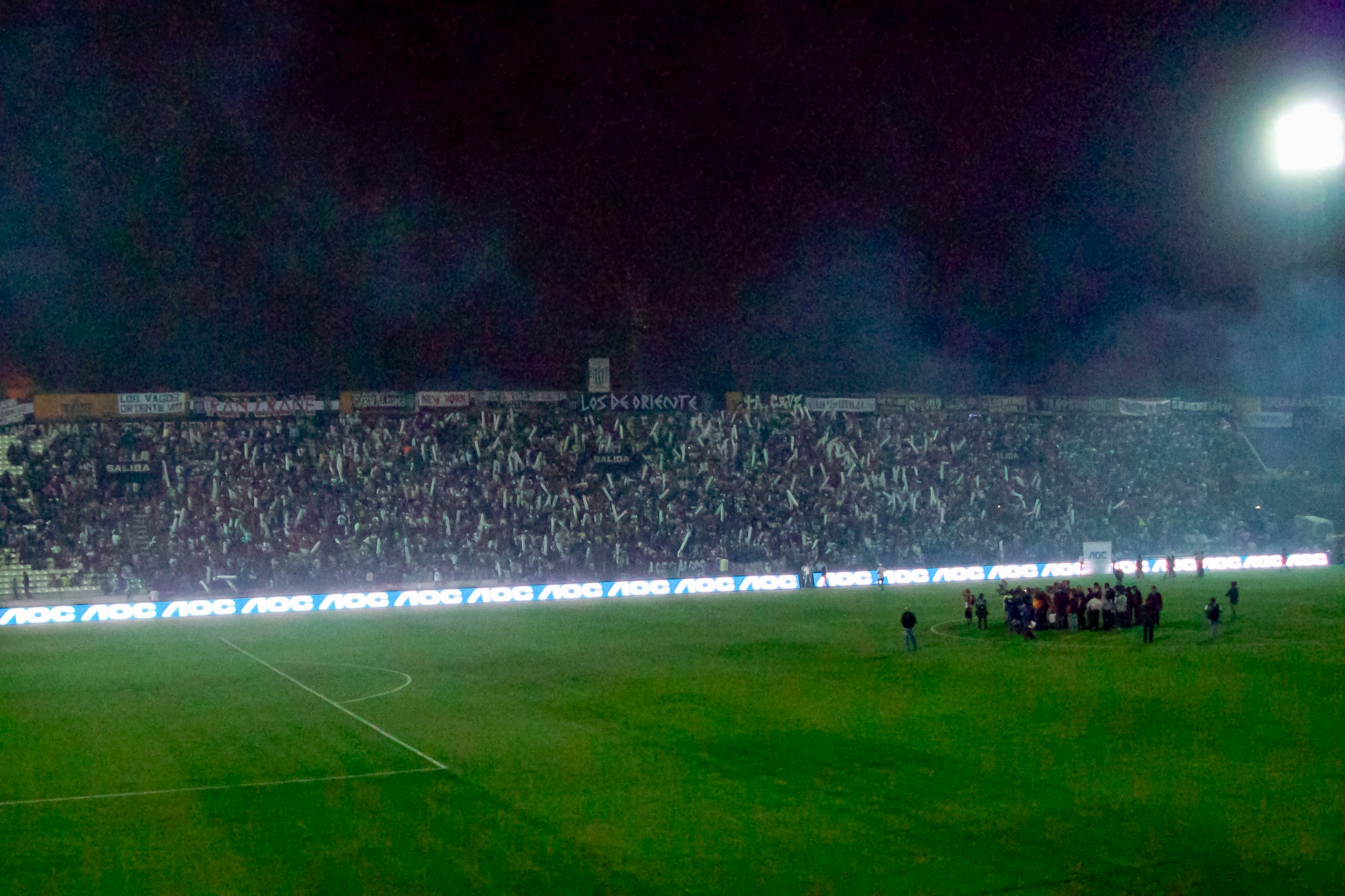 Inauguration of the advertising panels of the Alejandro Villanueva Stadium before the match between Alianza Lima and Universidad San Martín.